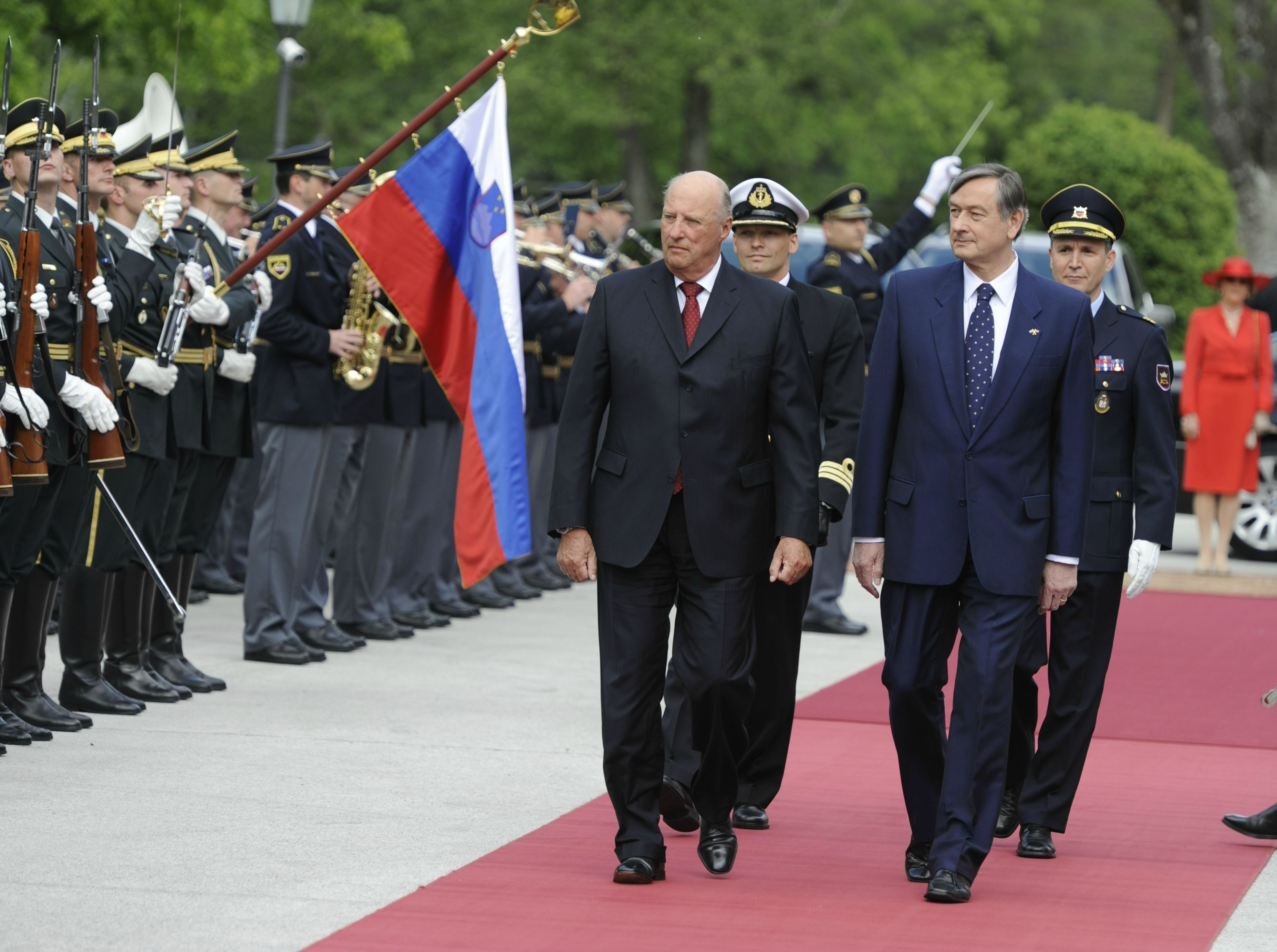 Harald V and Sonja of Norway in Slovenia in 2011